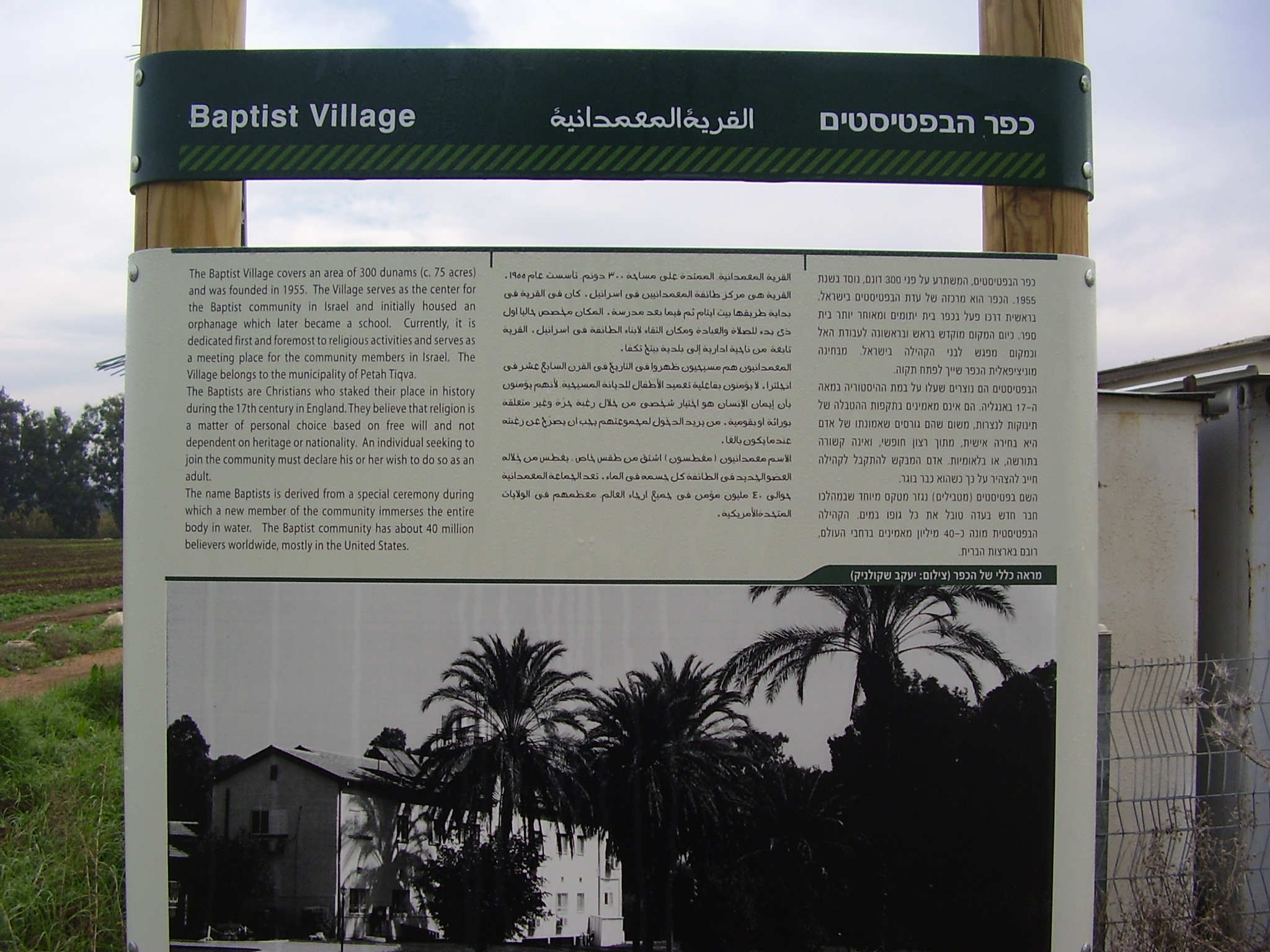 baptist village in israel